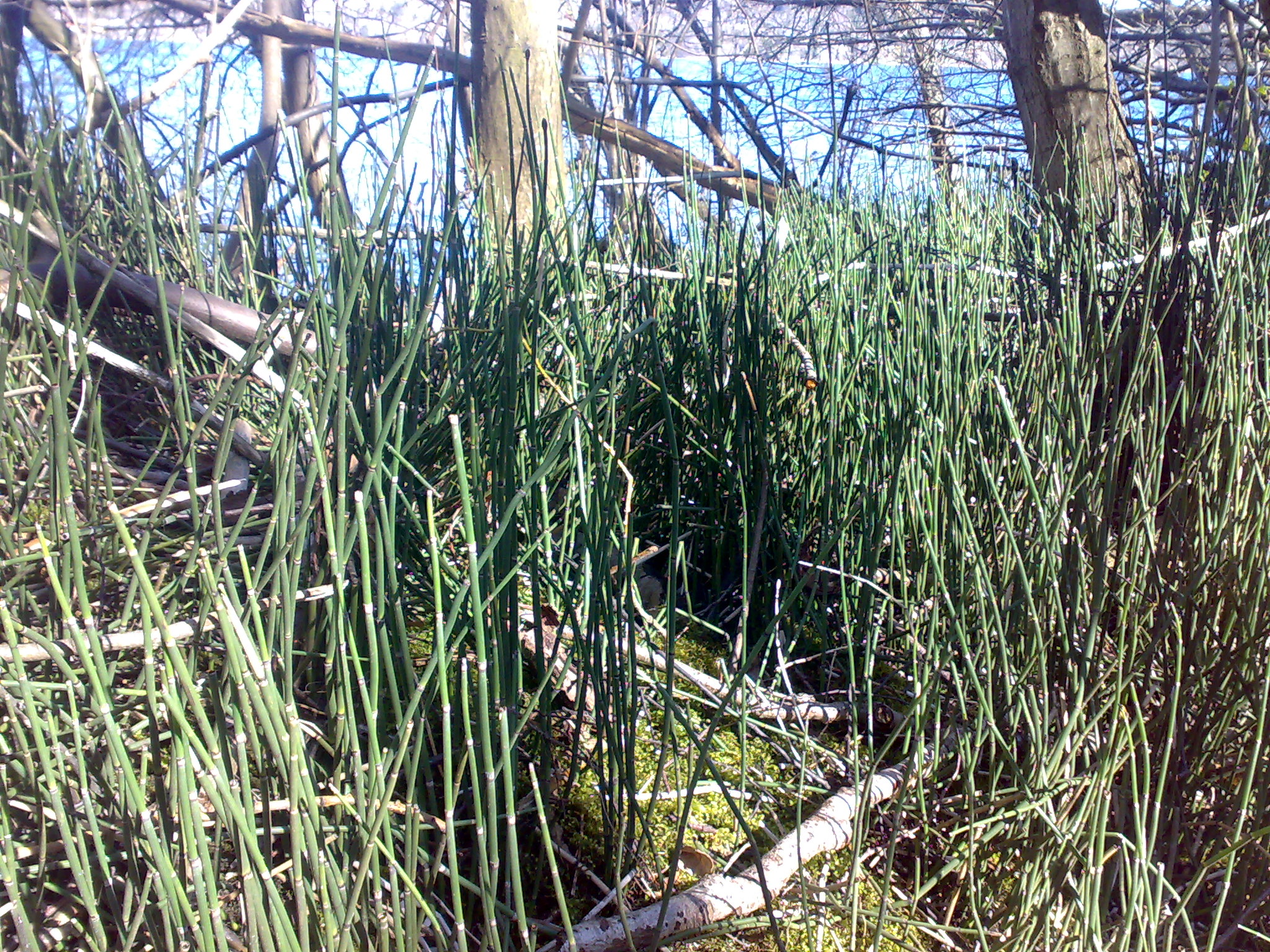 Equisetum hyemale, Brevik, Norway